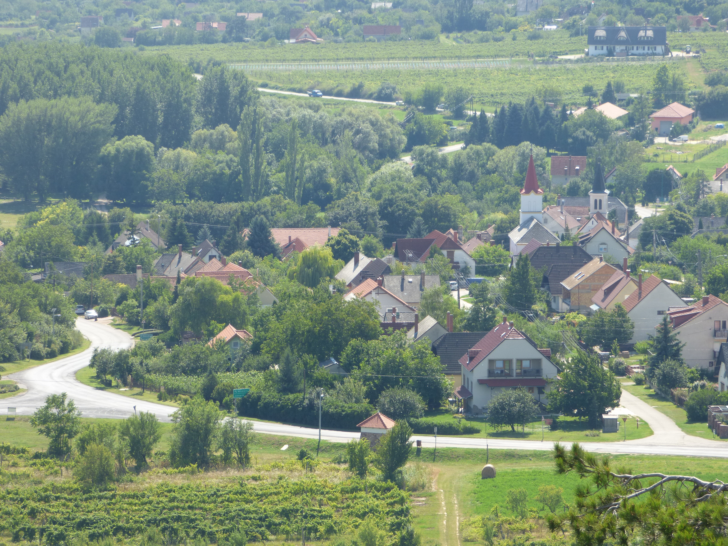 A 7219-es és a 72 116-os közút találkozása, háttérben Lovas házaival, a Somlyó-hegyi kilátóból